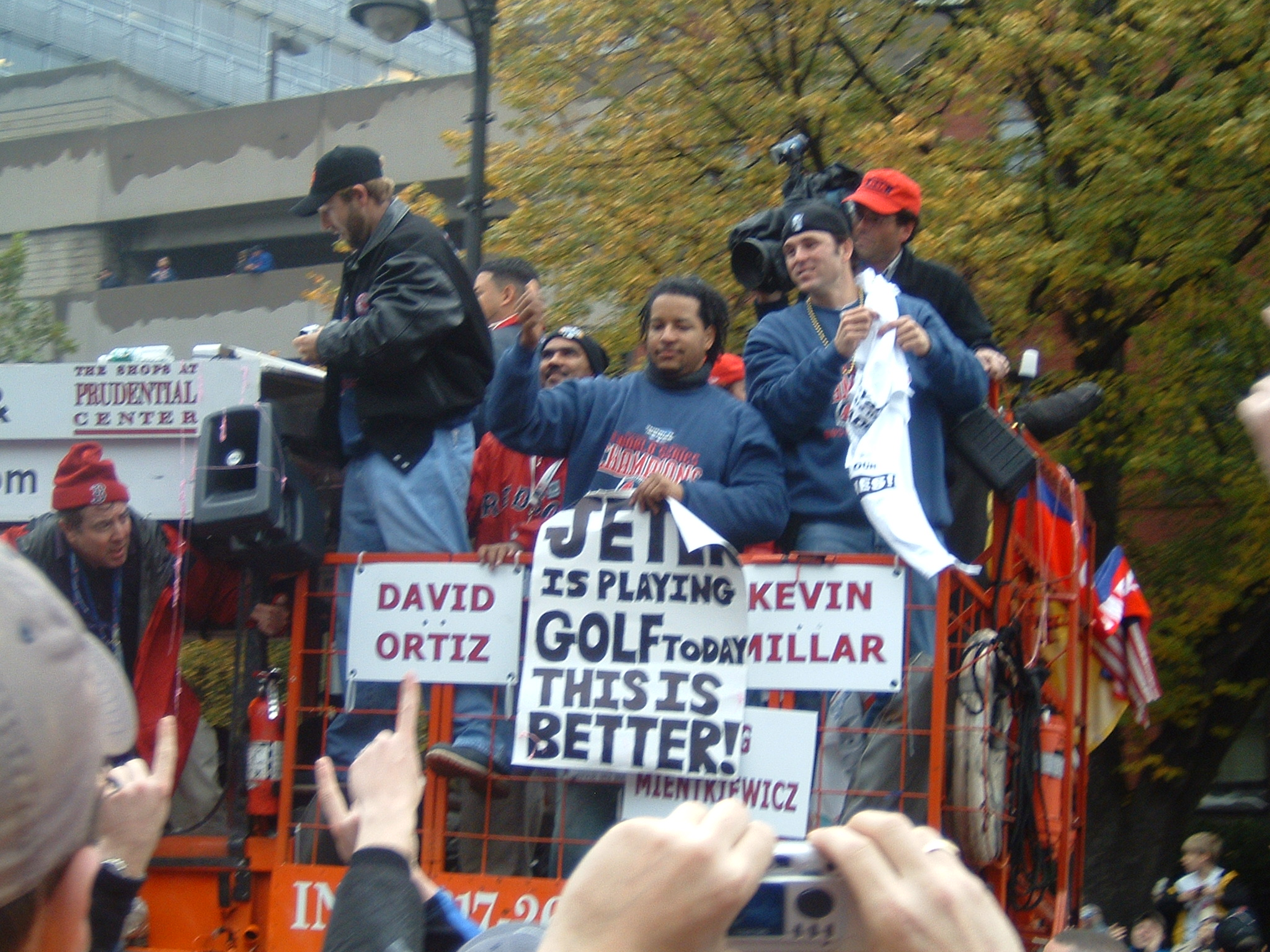 Manny Ramirez at the Red Sox victory parade. Whole gallery of parade pictures available here